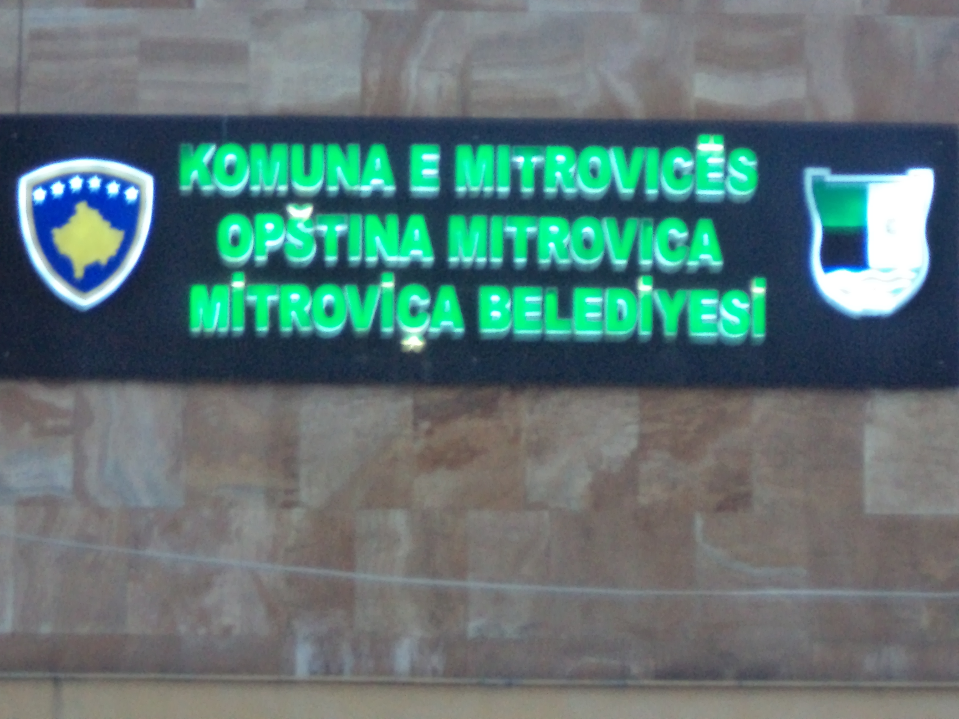 Three official languages in Kosova: Albanian, Turkish and Serbian.